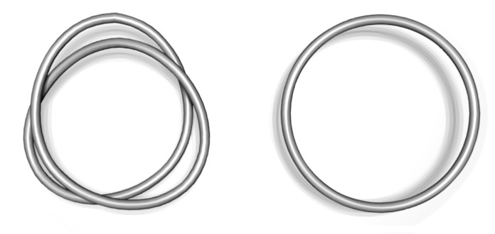 This picture shows two trivial knots in the knot theory (mathematics). The right one is the usual circle. On the other hand, the left one resembles to the trefoil knot. They have the same projection if one neglects the vertical relationship of the string at intersections. However, slight difference of string arrangement at intersection makes the one drawn here the trivial knot, i.e. one can untie the knot to the circle without splitting the string. This picture presents both knots as 3D graphics to illustrate the arrangement of the strings.